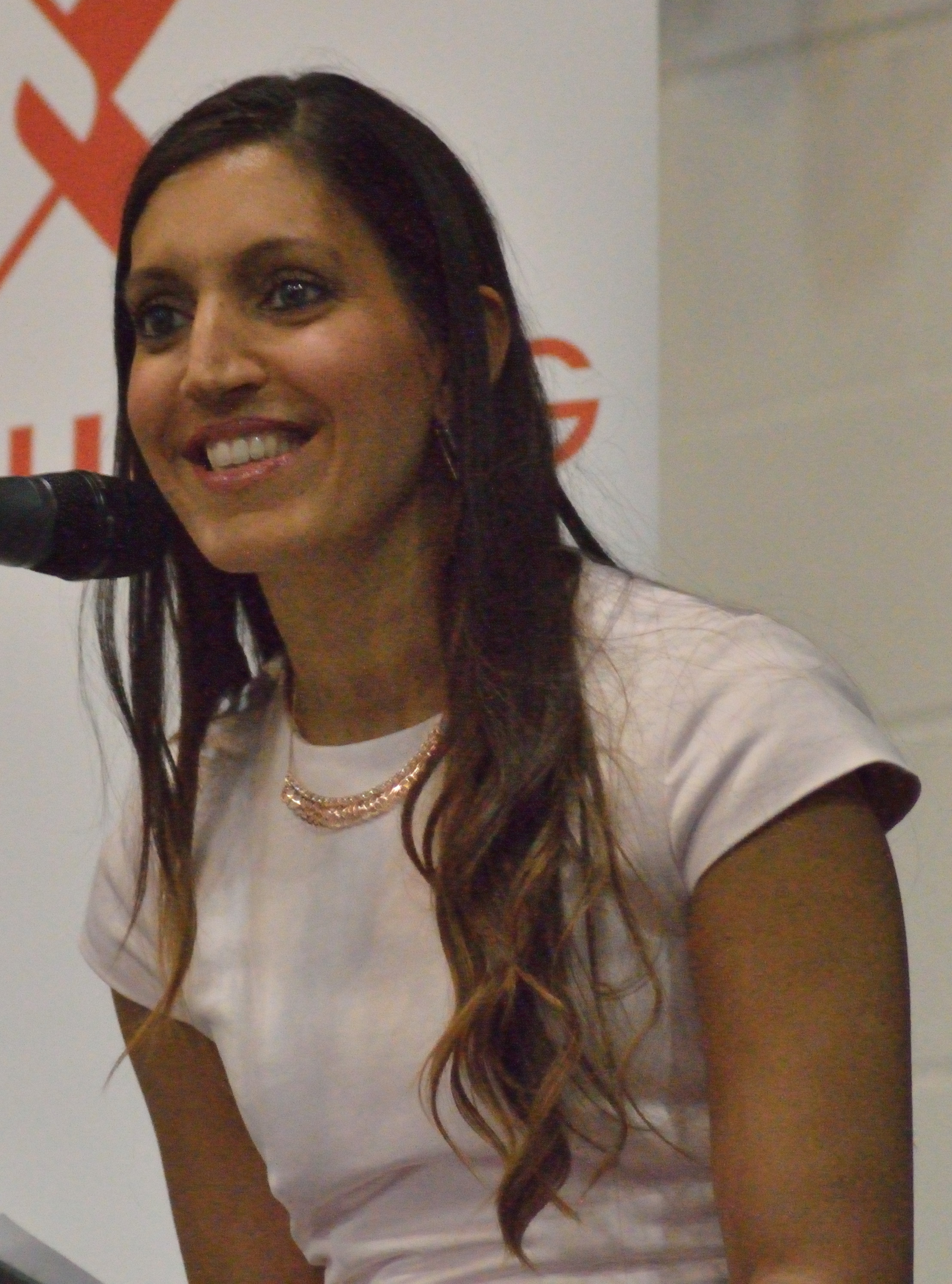 Rosena Allin-Khan at the 2016 Labour Party Conference in Liverpool, speaking at a fringe meeting organised by Labourlist.